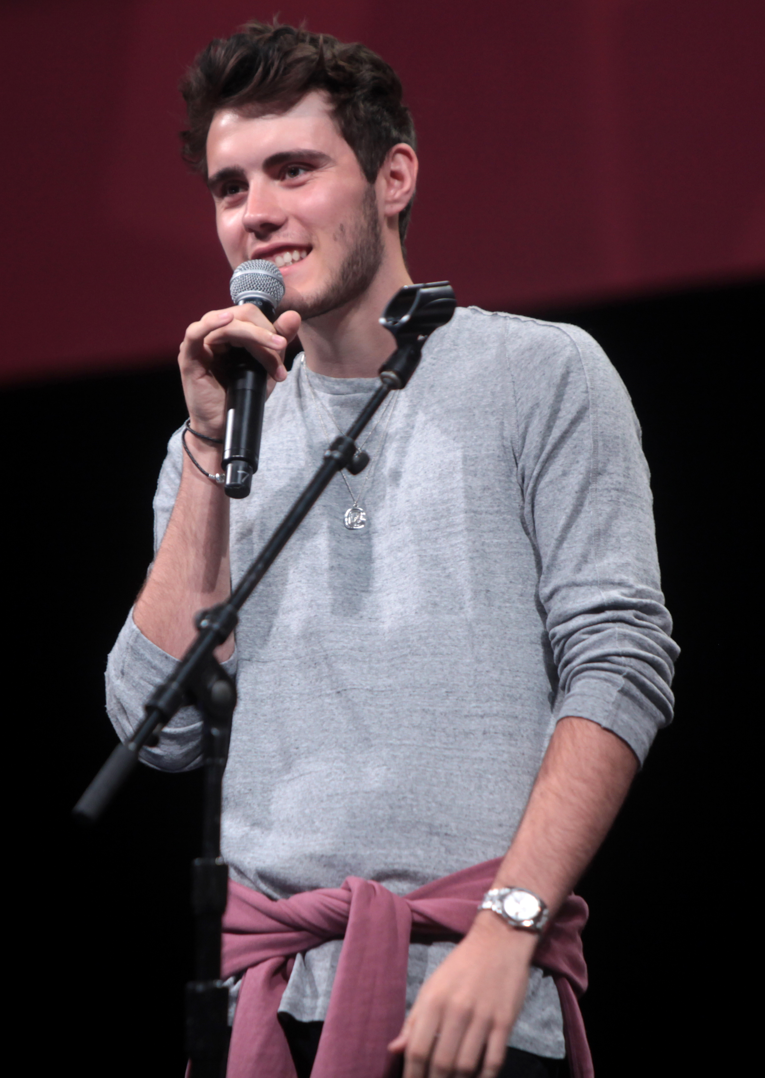 Alfie Deyes speaking at the 2014 VidCon on June 28, 2014.